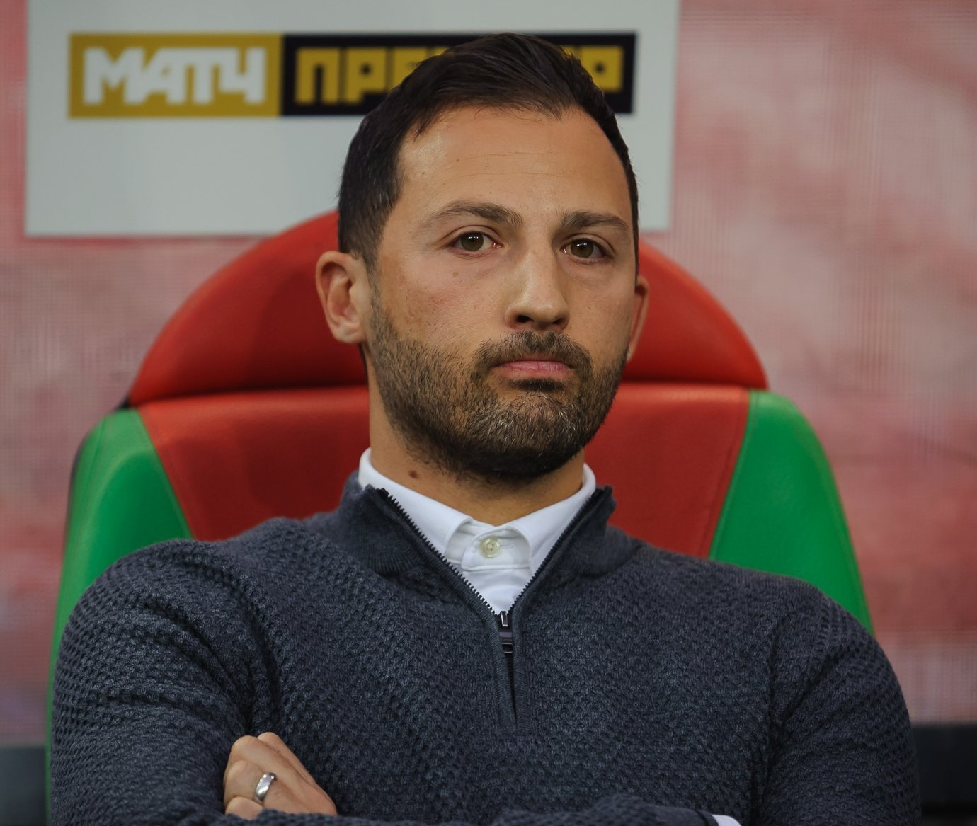 Domenico Tedesco coaching FC Spartak Moscow in a game against FC Lokomotiv Moscow